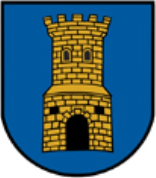 Coat of arms of Köflach, Styria